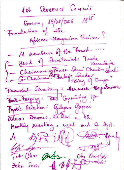 The handwritten foundation document of the African-Hungarian Union.